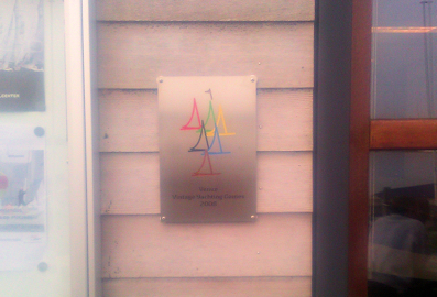 Memento plaque 2008 Vintage Yachting Games